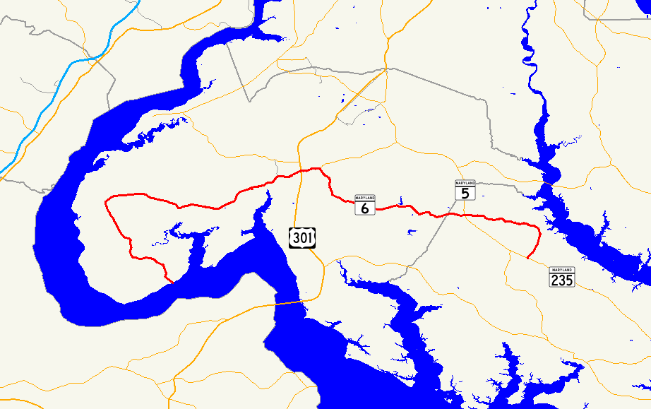 Map of Maryland Route 6